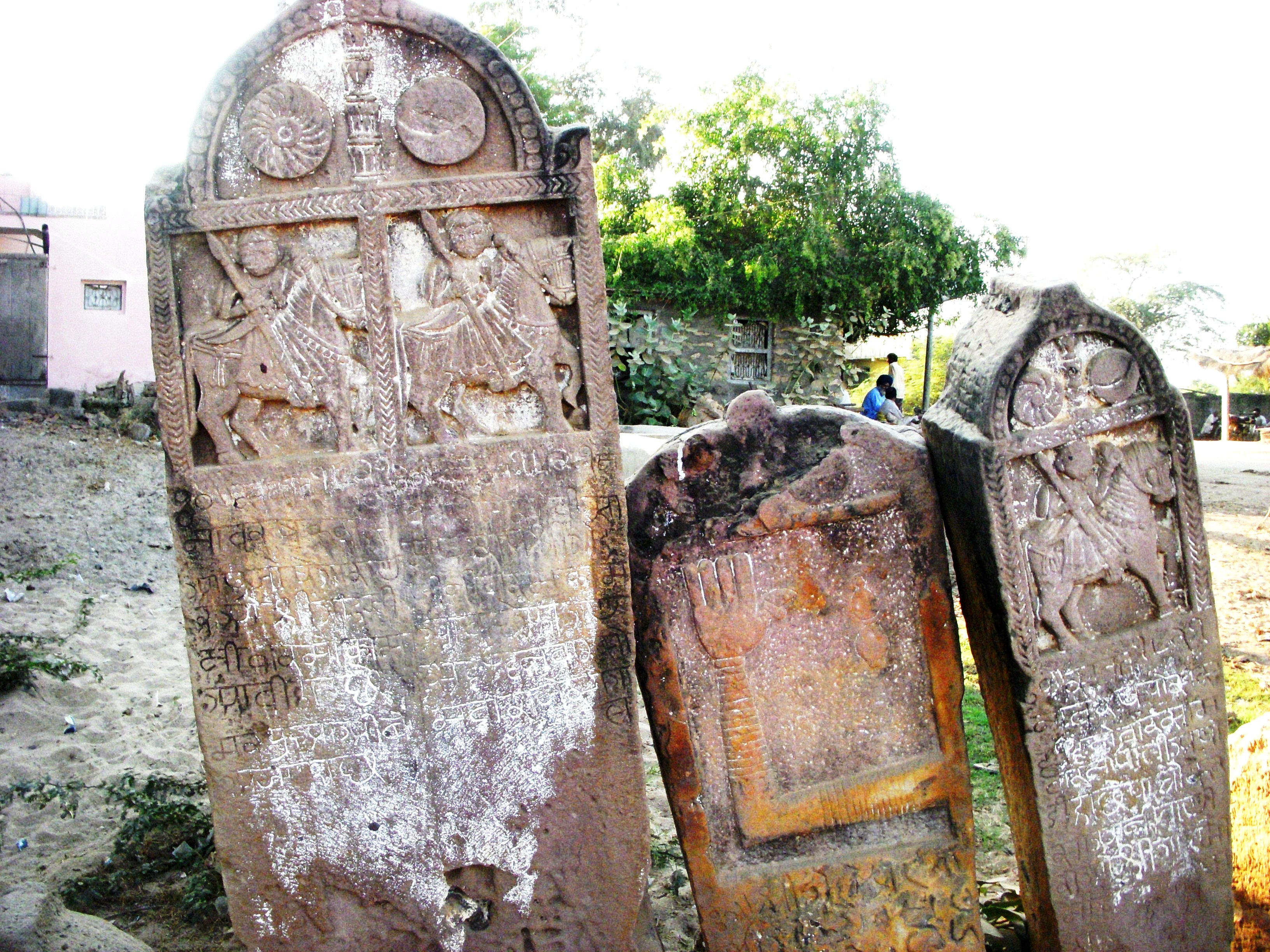 Warrior and sati memorial stones, nirona, kaach.